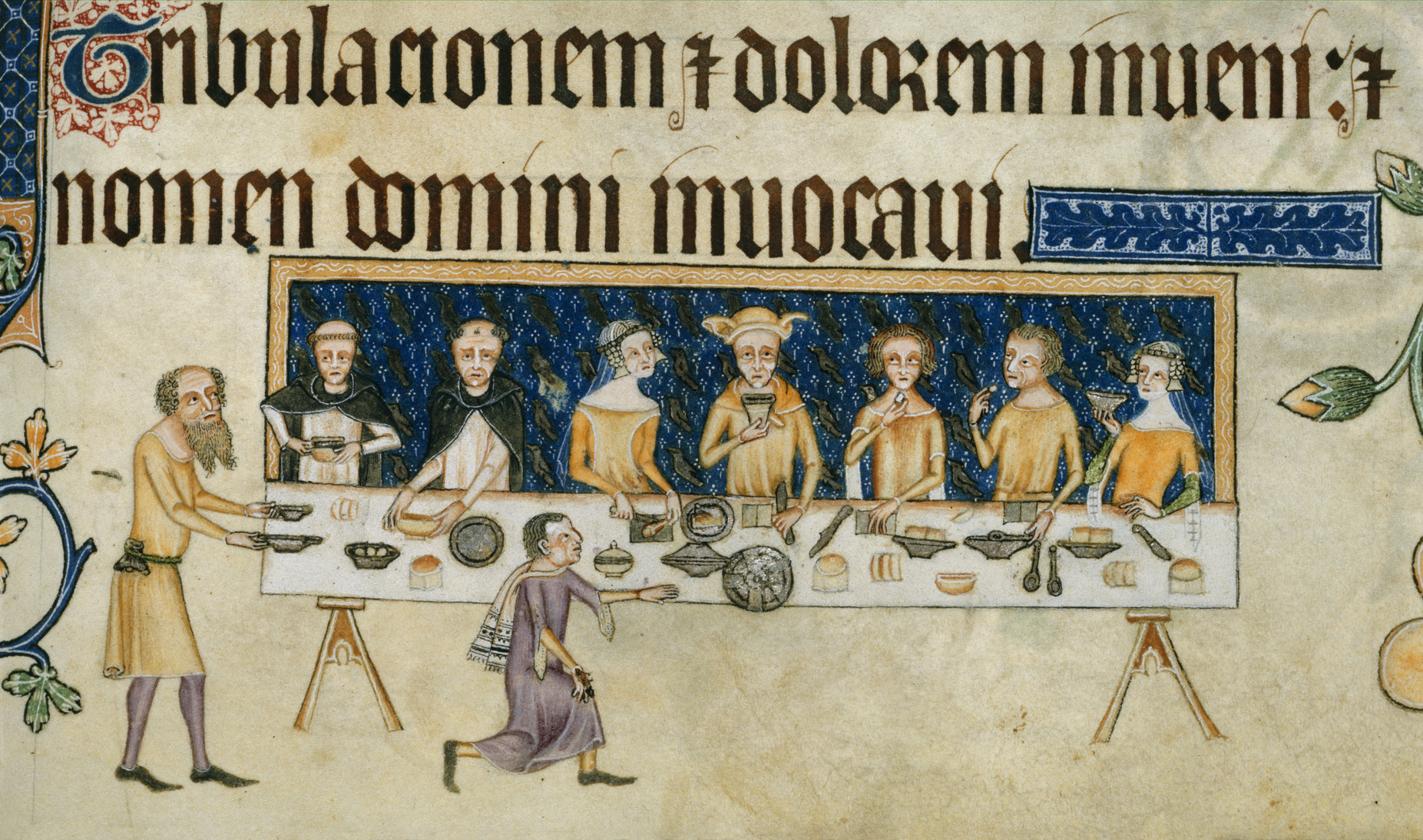 Sir Geoffrey Luttrell at table [Lower margin] Sir Geoffrey Luttrell is seated in the centre of a long table supported on two trestles, behind is a blue hanging with the Luttrell martlets in silver. On his left, his wife, Agnes Sutton, and two Dominicans, perhaps his chaplain, Robert of Wilford, and his confessor, William of Foderingeye. On Luttrell's right, two men and a lady. A bearded servant brings two dishes, and a cup-bearer kneels, having given his cup to Sir Geoffrey. On the table are knives, spoons, dishes, and plates or trenchers of bread